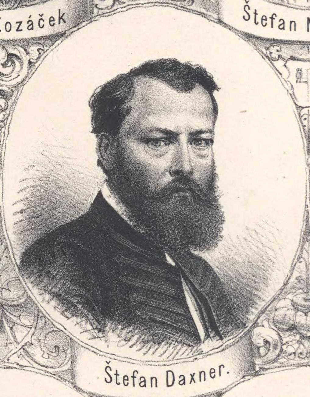 Portrait of Štefan Marko Daxner (1822 - 1892), Slovak lawyer, politician and poet. Picture cropped from a gallery of famous Slovaks.